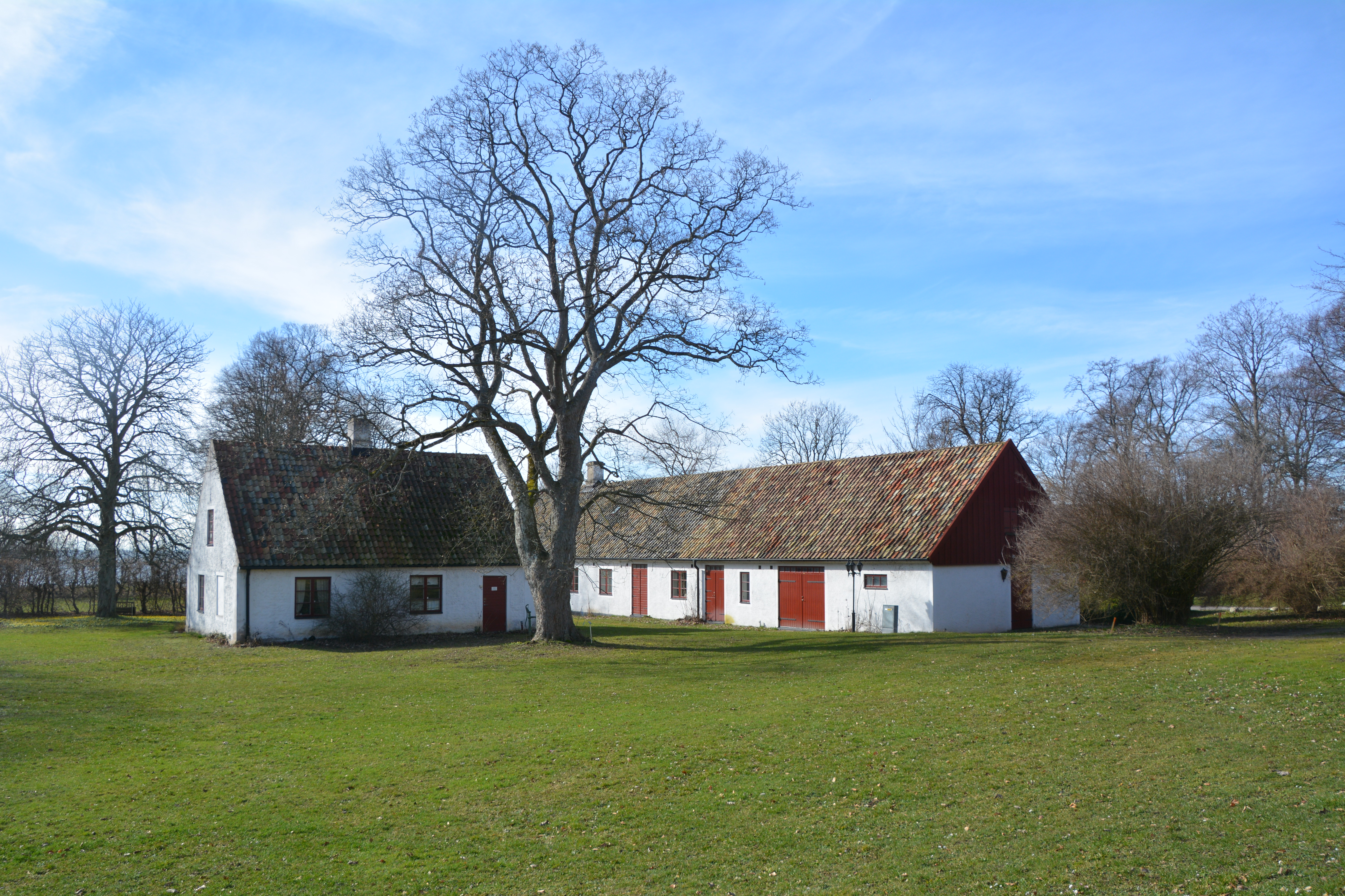 Bjersund brickworks . Brickworks master's house and Long building